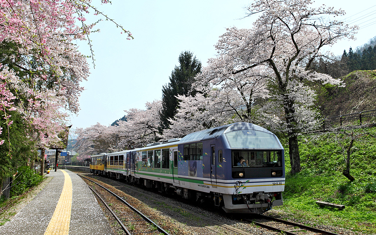 Aizu Railway Oza-Toro-Tembo Train (Type AT-400 + AT-350 + AT-100 DMU)